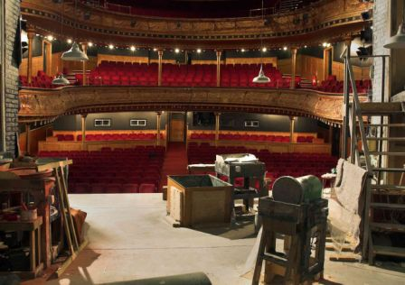 On stage shot incorporating The Bevellers set designed by Jason Southgate at the Citizens Theatre, Glasgow.